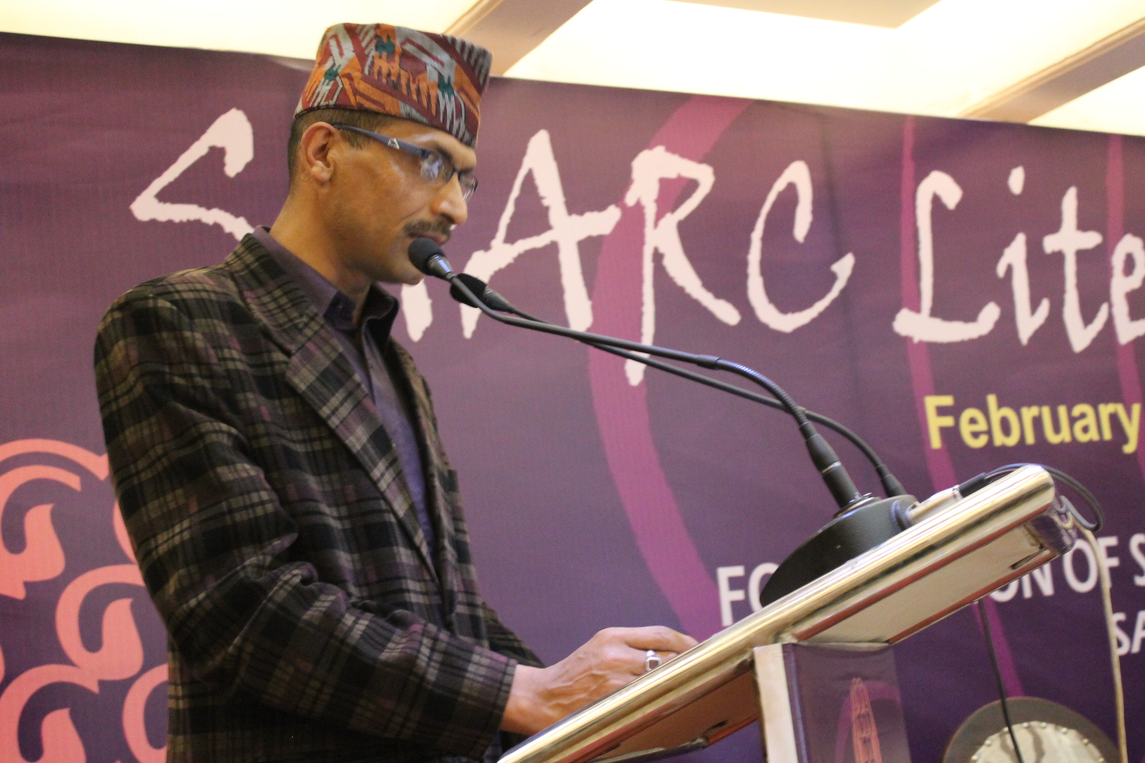 Award wining Nepali poet Suman Pokhrel speaking during SAARC Festival of Literature 2015